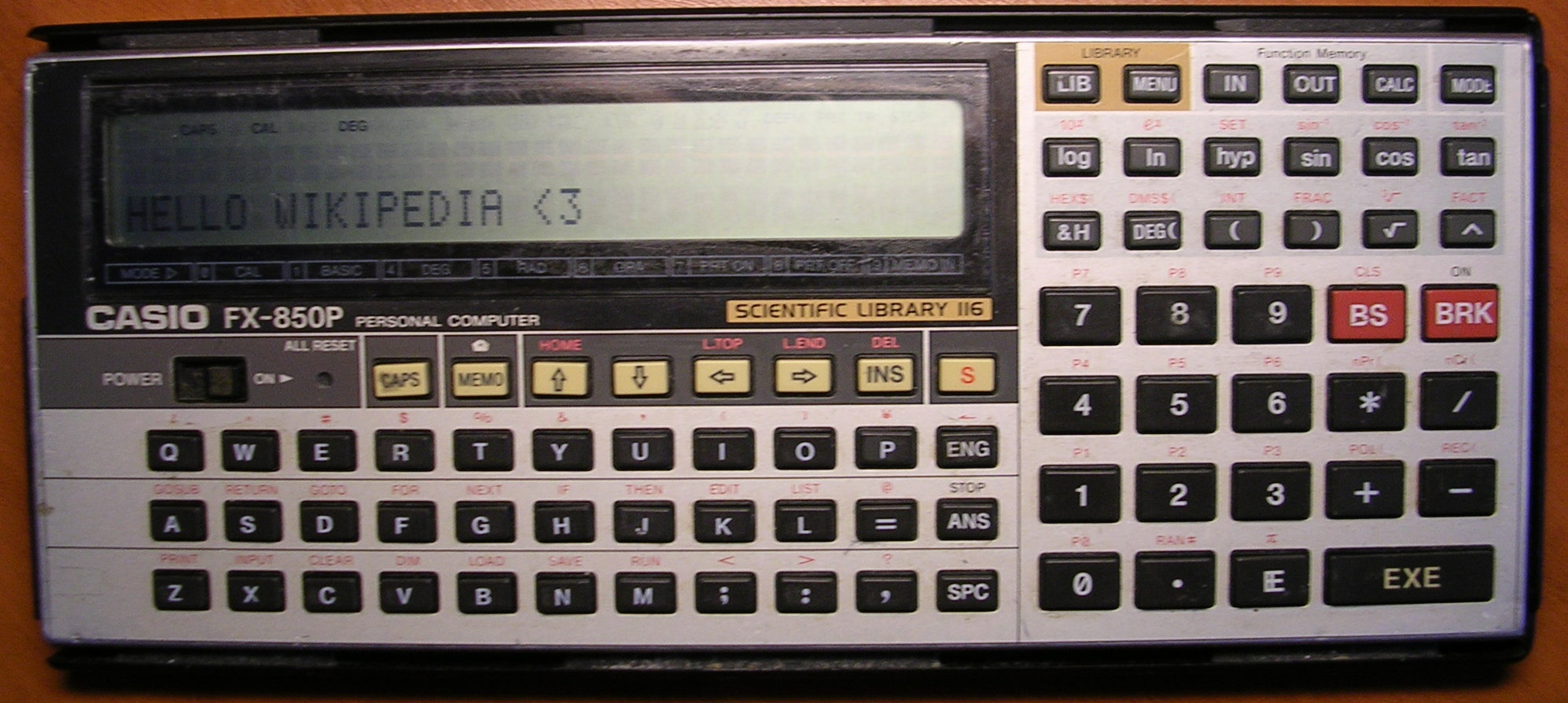 The Casio FX-850P is a scientific calculator.